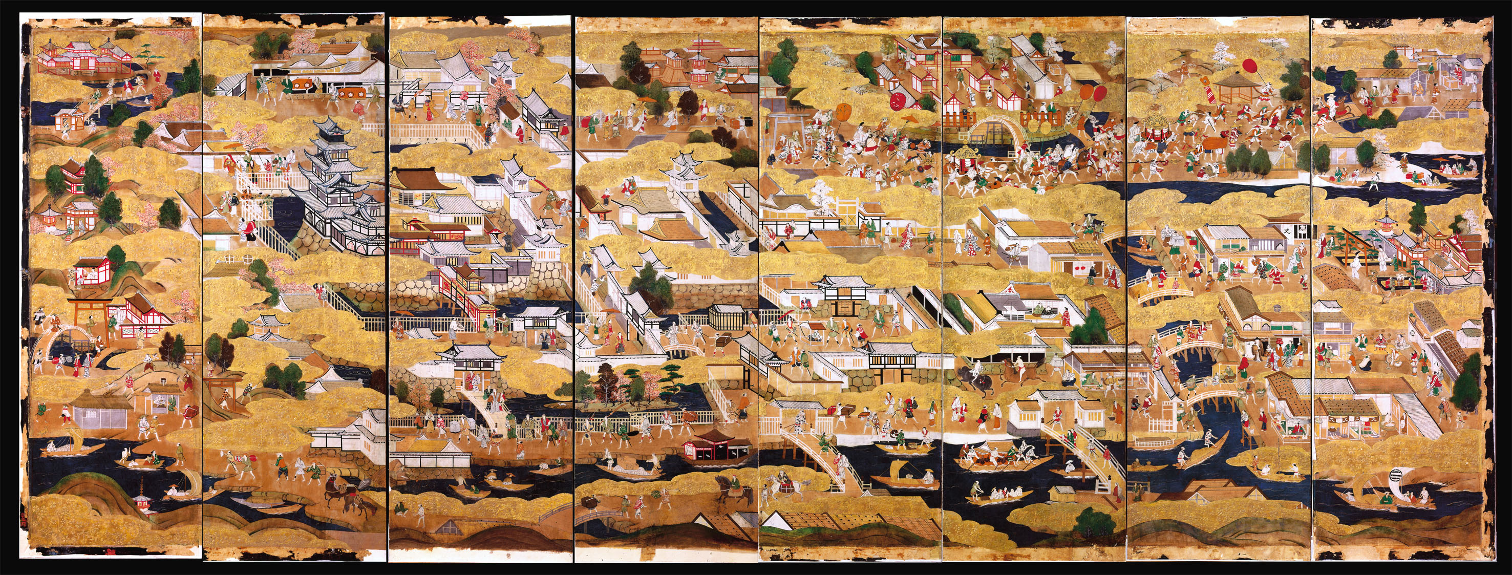 Osaka-zu byobu, the Japanese folding screen depicting the cityscape of Osaka during the Toyotomi period (owned by Schloss Eggenberg)